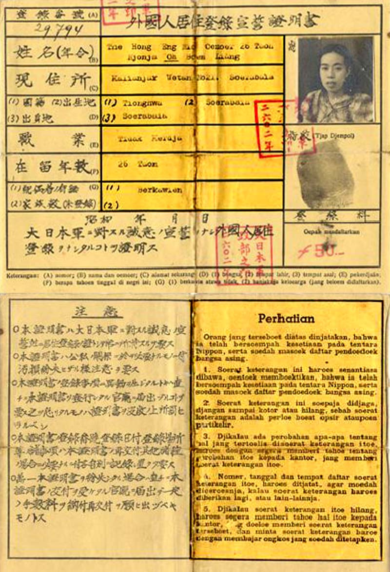 Identity card of 26-year-old The Hong Eng, wife of Oh Boen Liang, dated 1942 (Japanese imperial year 2602). The was an ethnic Chinese living in Japanese-occupied Dutch East Indies (now Indonesia), as indicated by her nationality "Tionghwa" (Tionghoa) and residence "Soerabaia" (Surabaya).